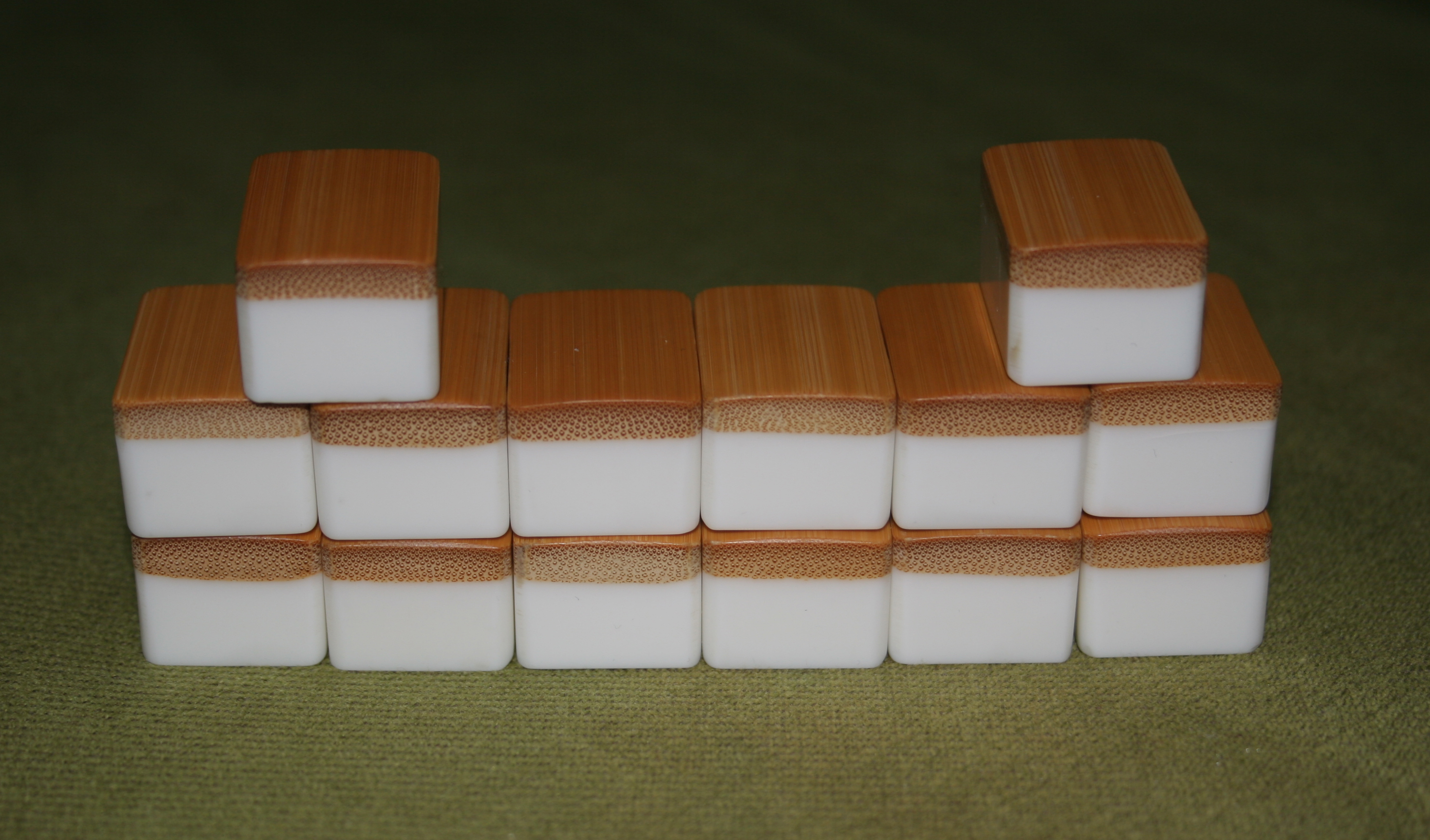 The ruin in a Mahjong game.